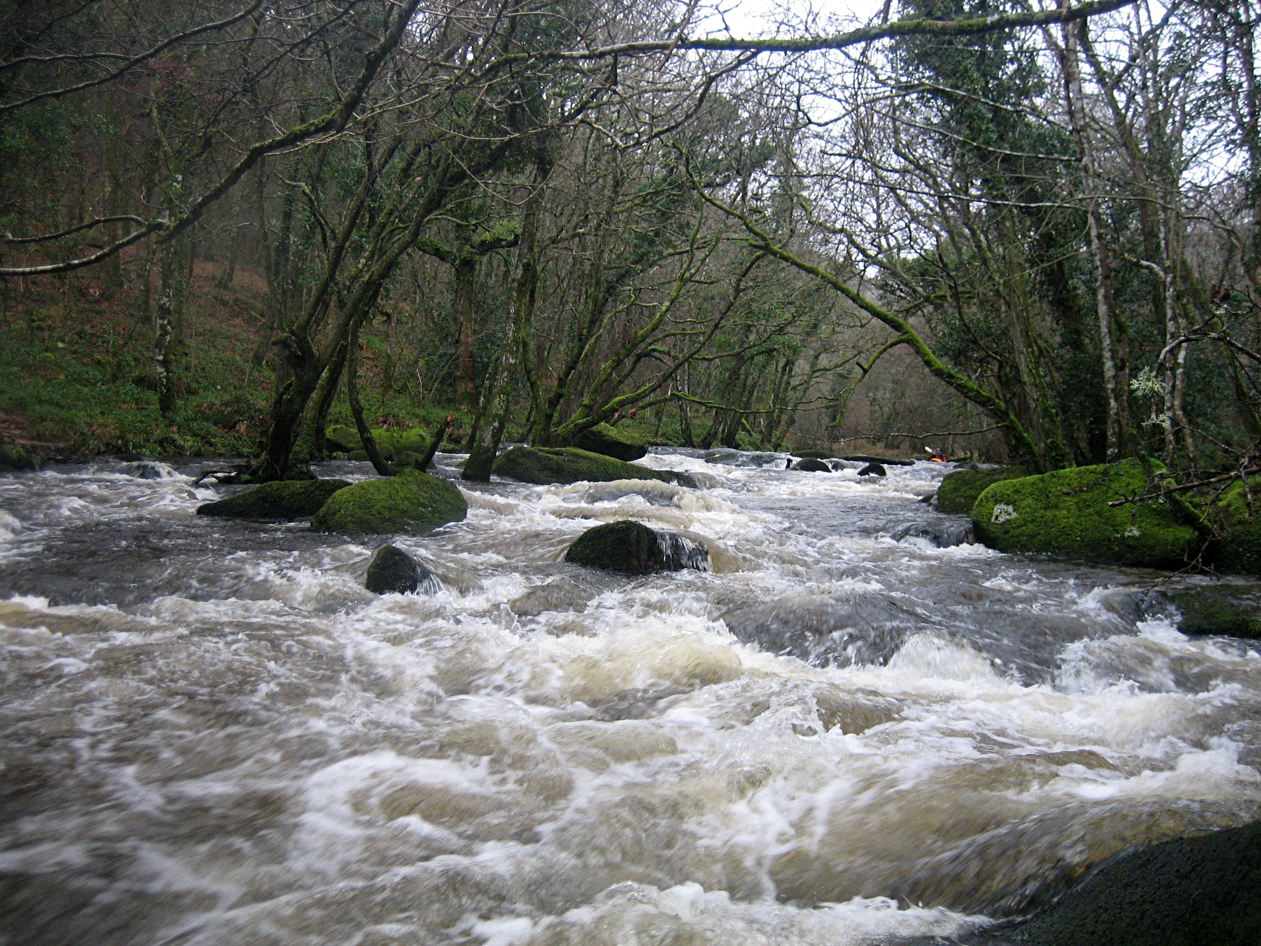 The River Teign, near Fingle Bridge and Castle Drogo, Dartmoor, Devon, England, looking upstream with a kayaker in the distance